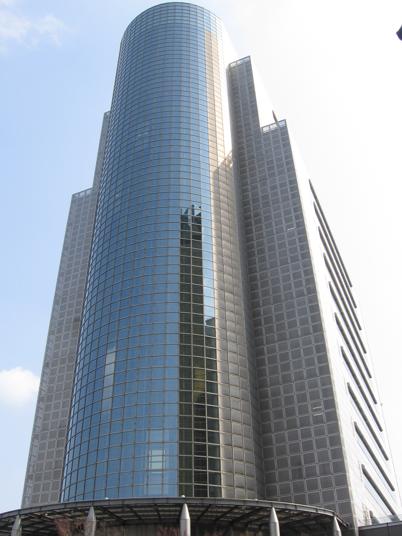 the Office of Sumida Ward, Tokyo, Japan